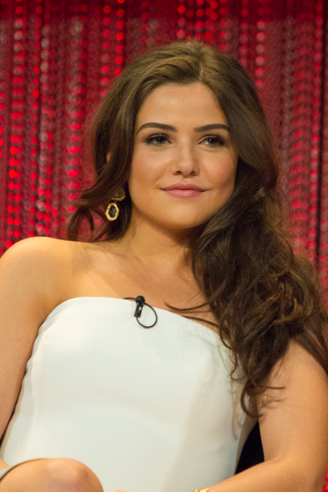 Danielle Campbell at The Paley Center For Media's PaleyFest 2014 Honoring "The Originals"